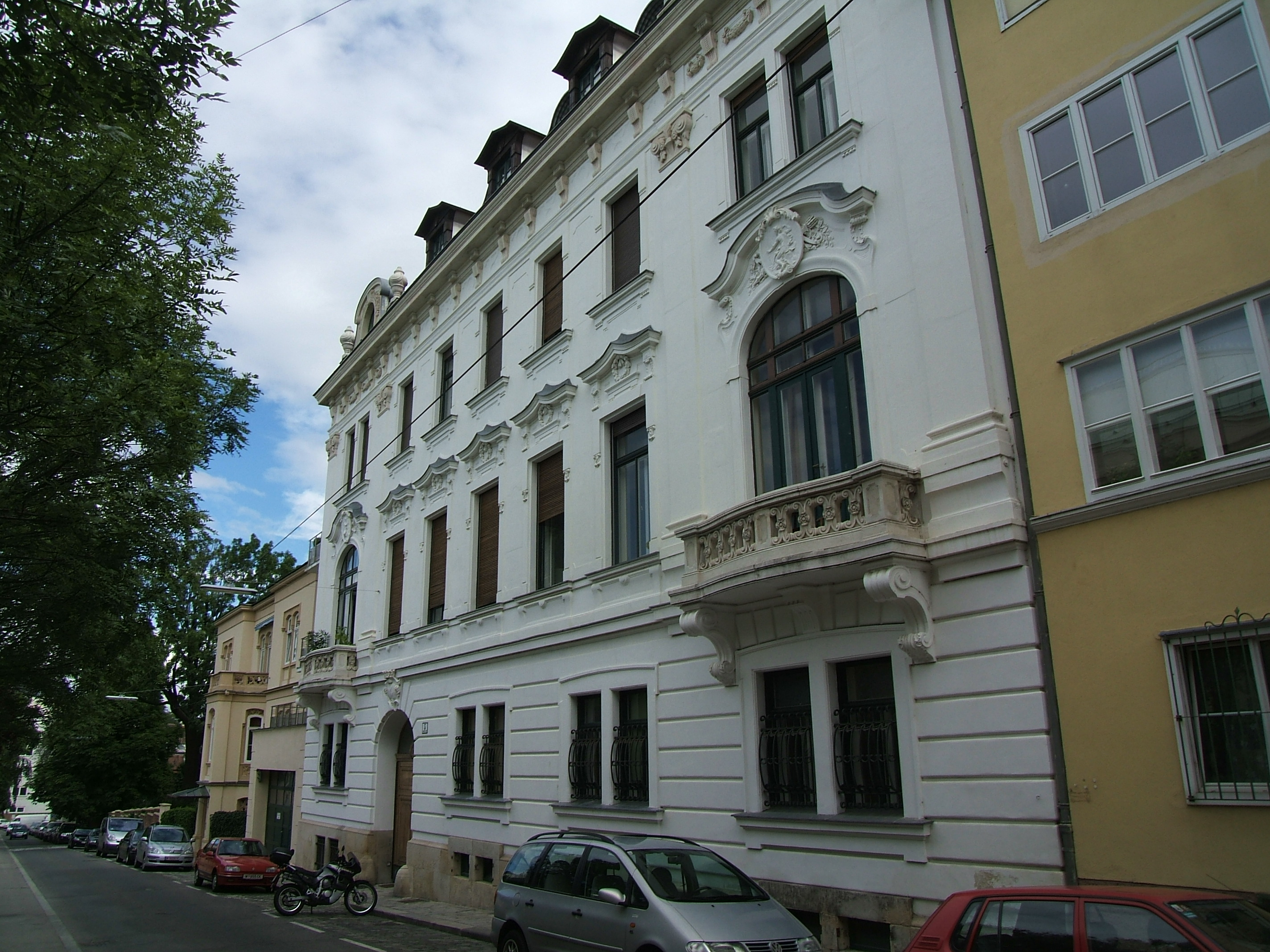 Palais Isbary in Vienna 4th district Schmöllerlgasse 5